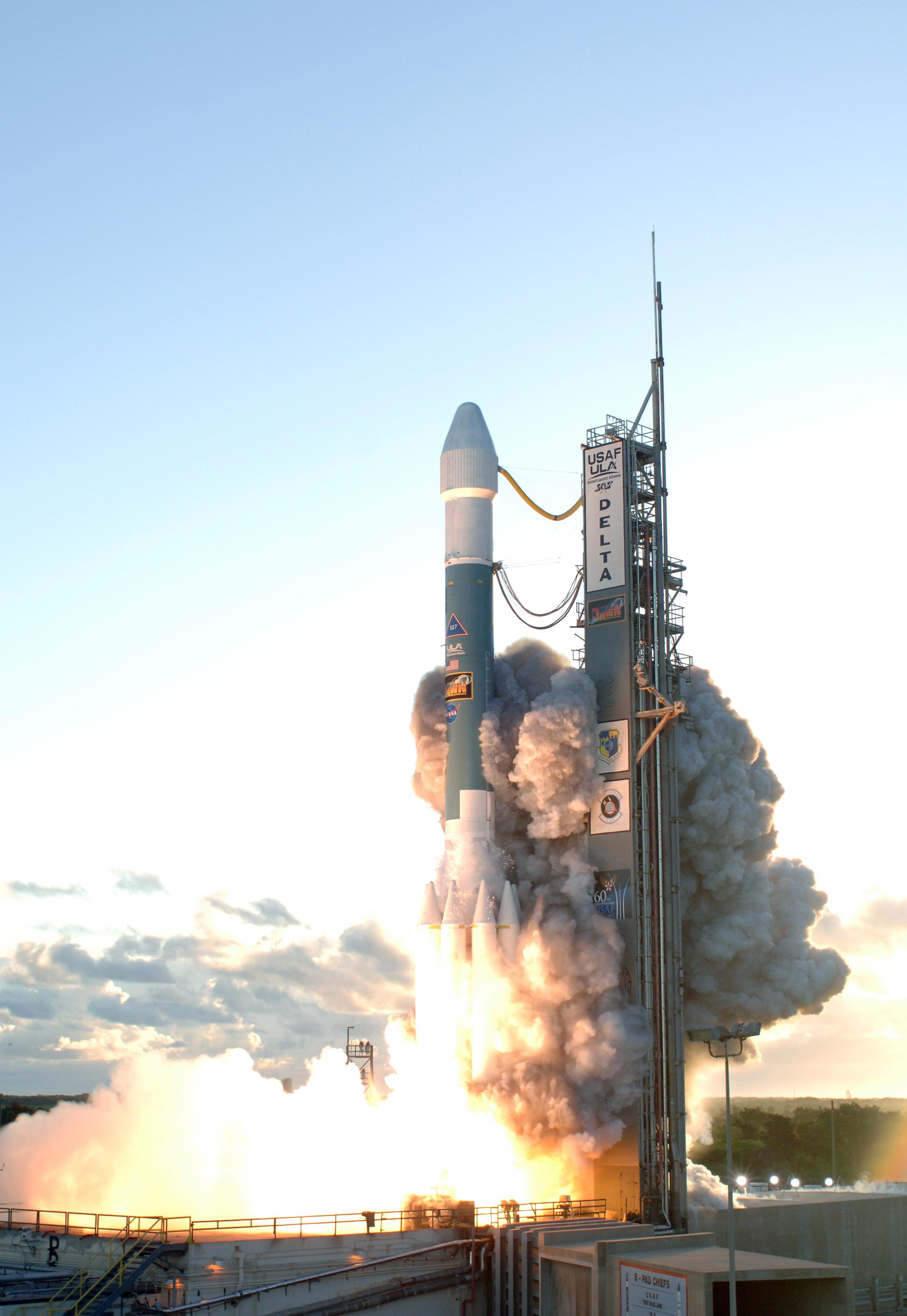 Delta II 7925 Heavy after ignition with Dawn on Launch pad 17B.